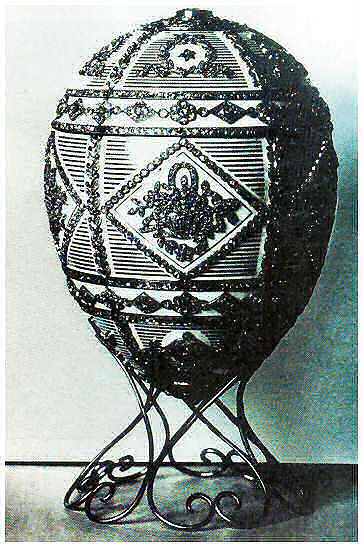 Faberge Egg "In memory of Alexander III". Disappeared after Russian Revolution